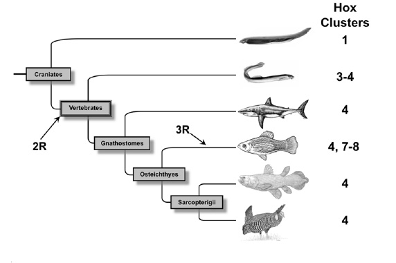 Phylogeny of craniates showing the phylogenic localization of genome duplications.